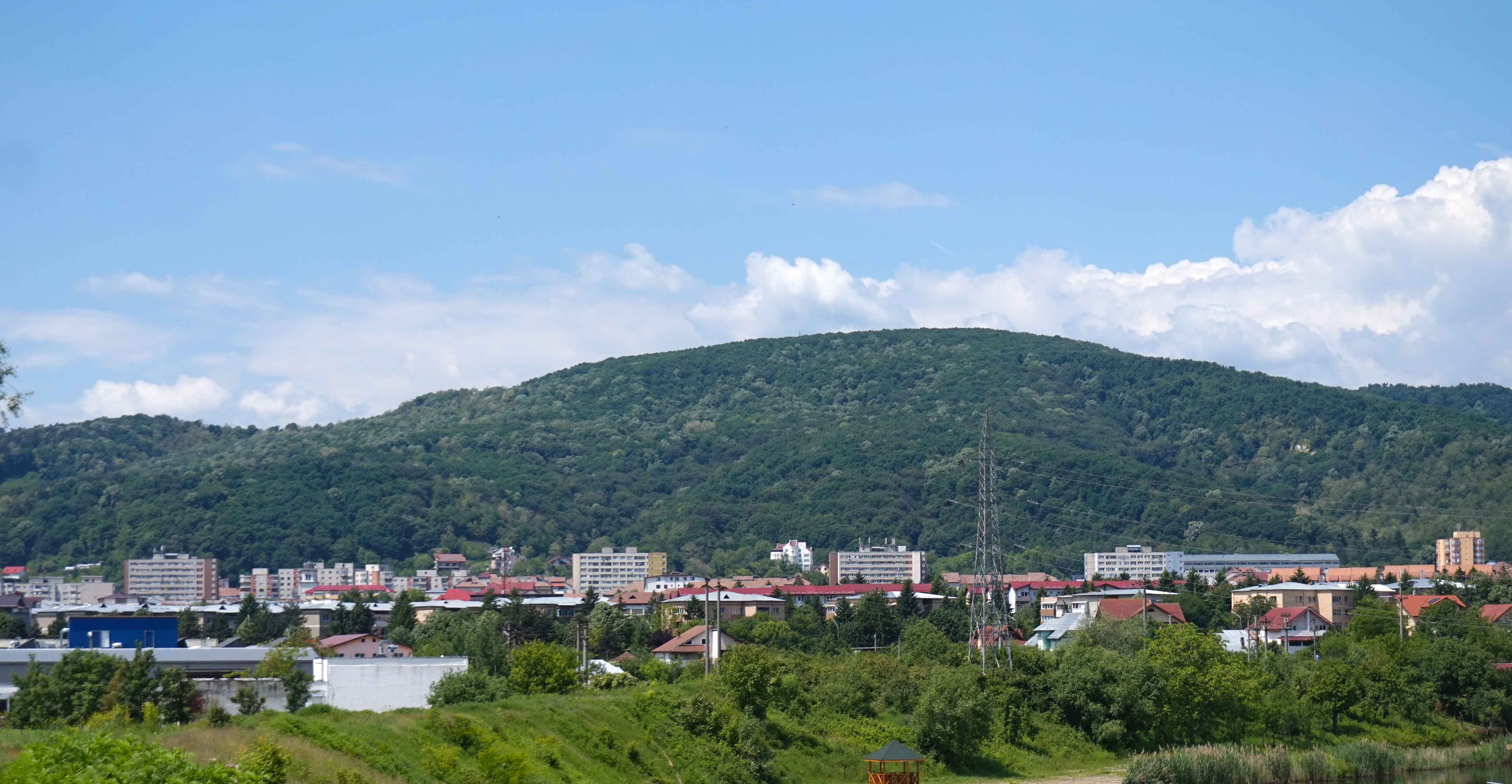 View of Ramnicu Valcea, Romania.This photograph was taken with a Sony ILCE-5000